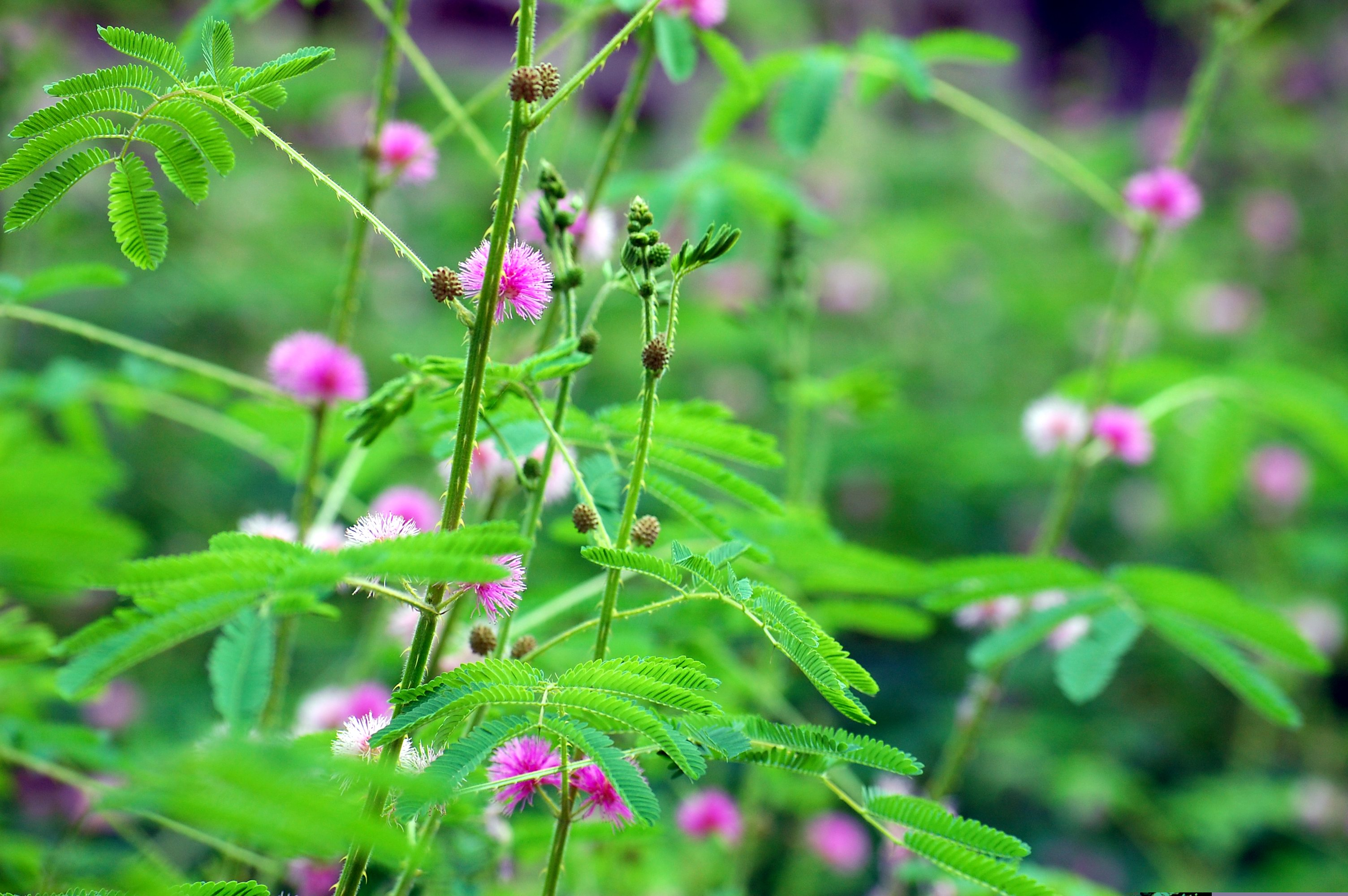 Mimosa diplotricha or Giant Sensitive plant